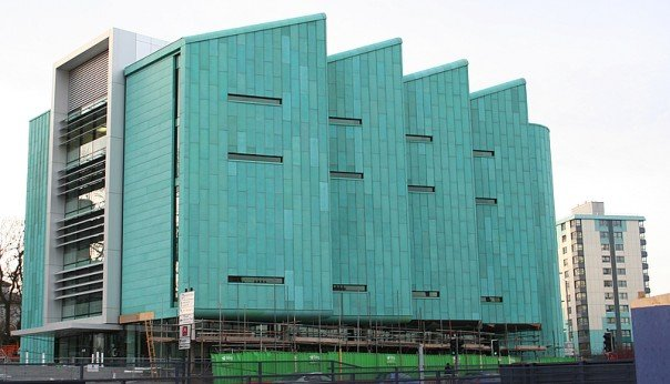 Information Commons, Sheffield, Taken by me on a canon 350d, I release to the public domain.